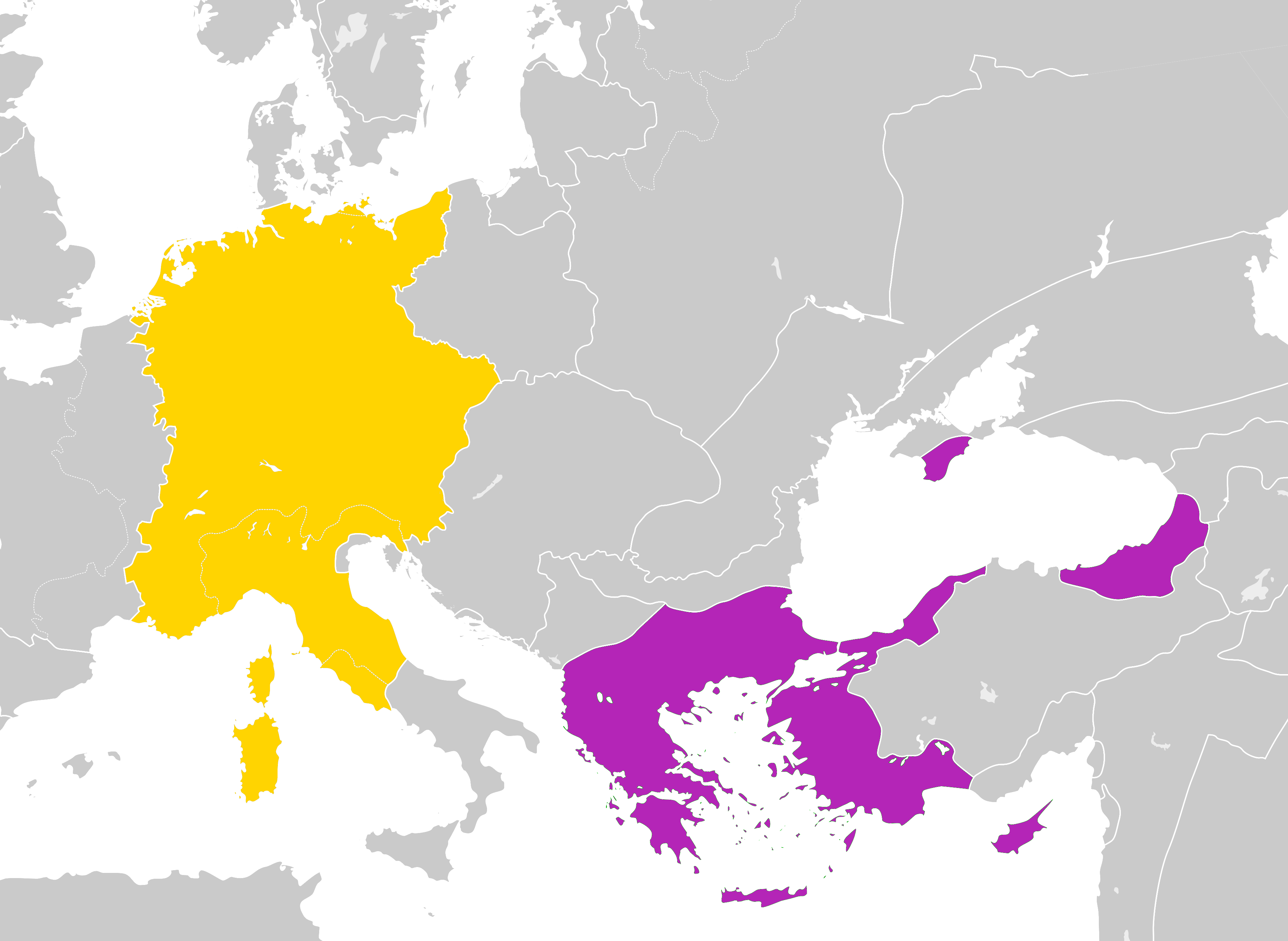 Map of the Byzantine Empire and the Holy Roman Empire in 1190 AD.